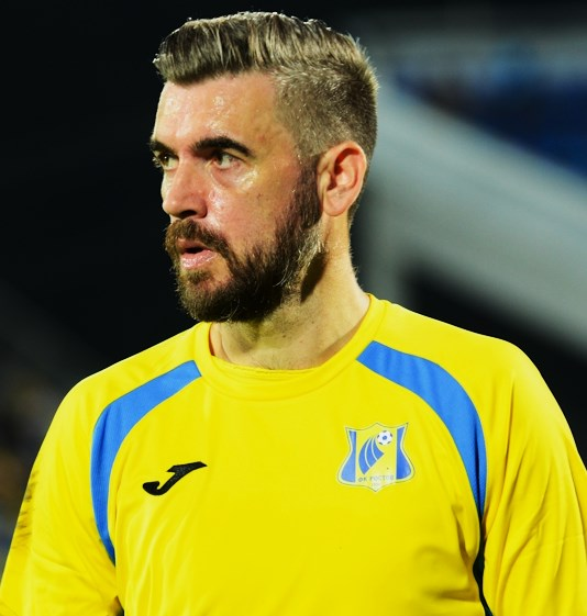 Stipe Pletikosa